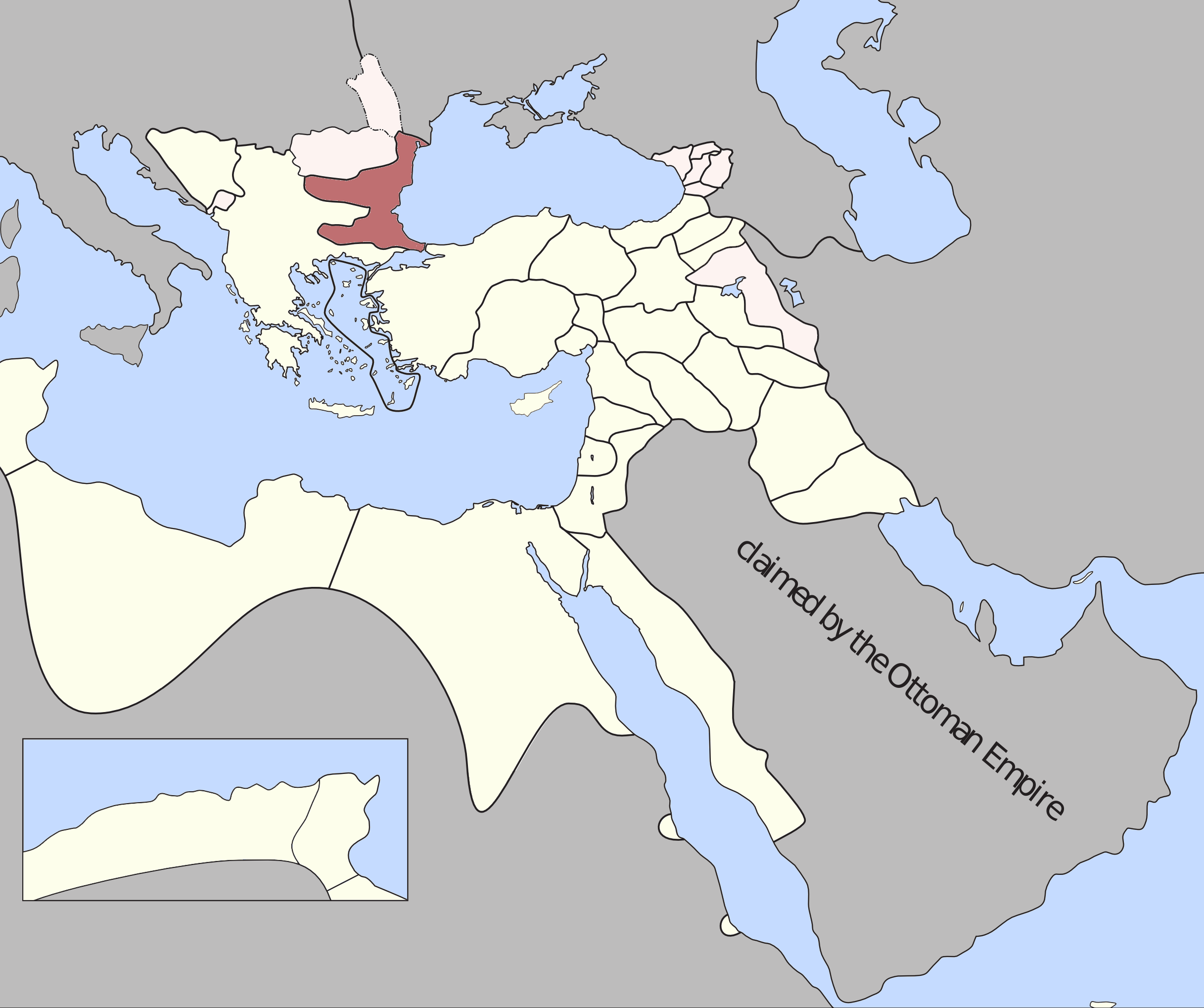 XY Eyalet, Ottoman Empire (1795). Source: A Brief History of the Late Ottoman Empire at Google Books By M. Sukru Hanioglu, Figure 1